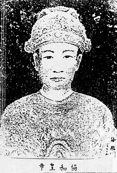 Portrait of Emperor Hiệp Hòa